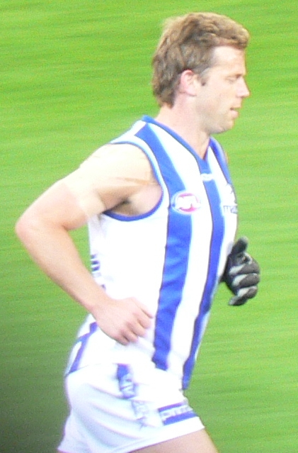 Glenn Archer, Australian rules footballer